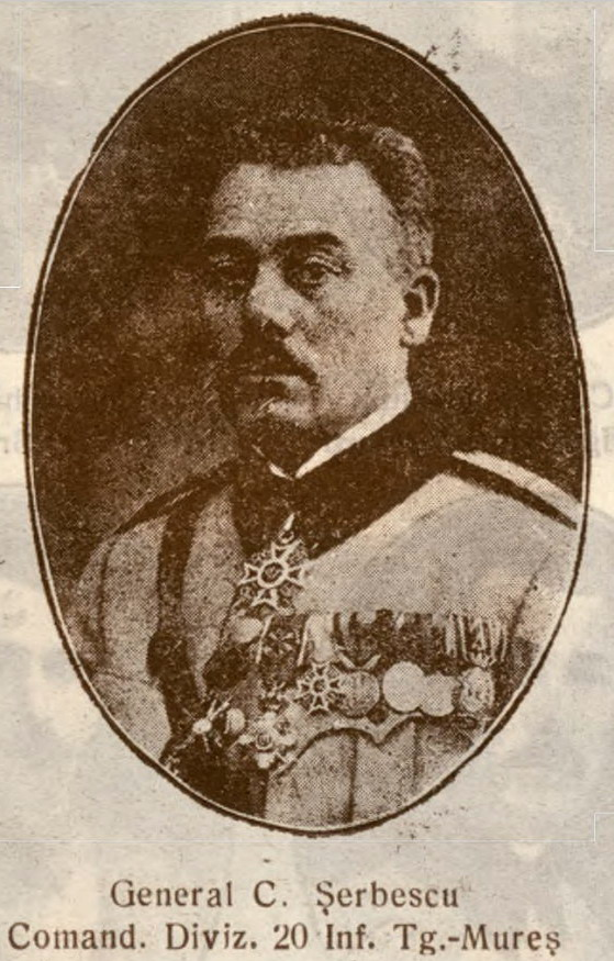 Romanian General Constantin Șerbescu - division commander during WWIRomână: Generalul Constantin Șerbescu - comandant de divizie în Primul Război Mondial